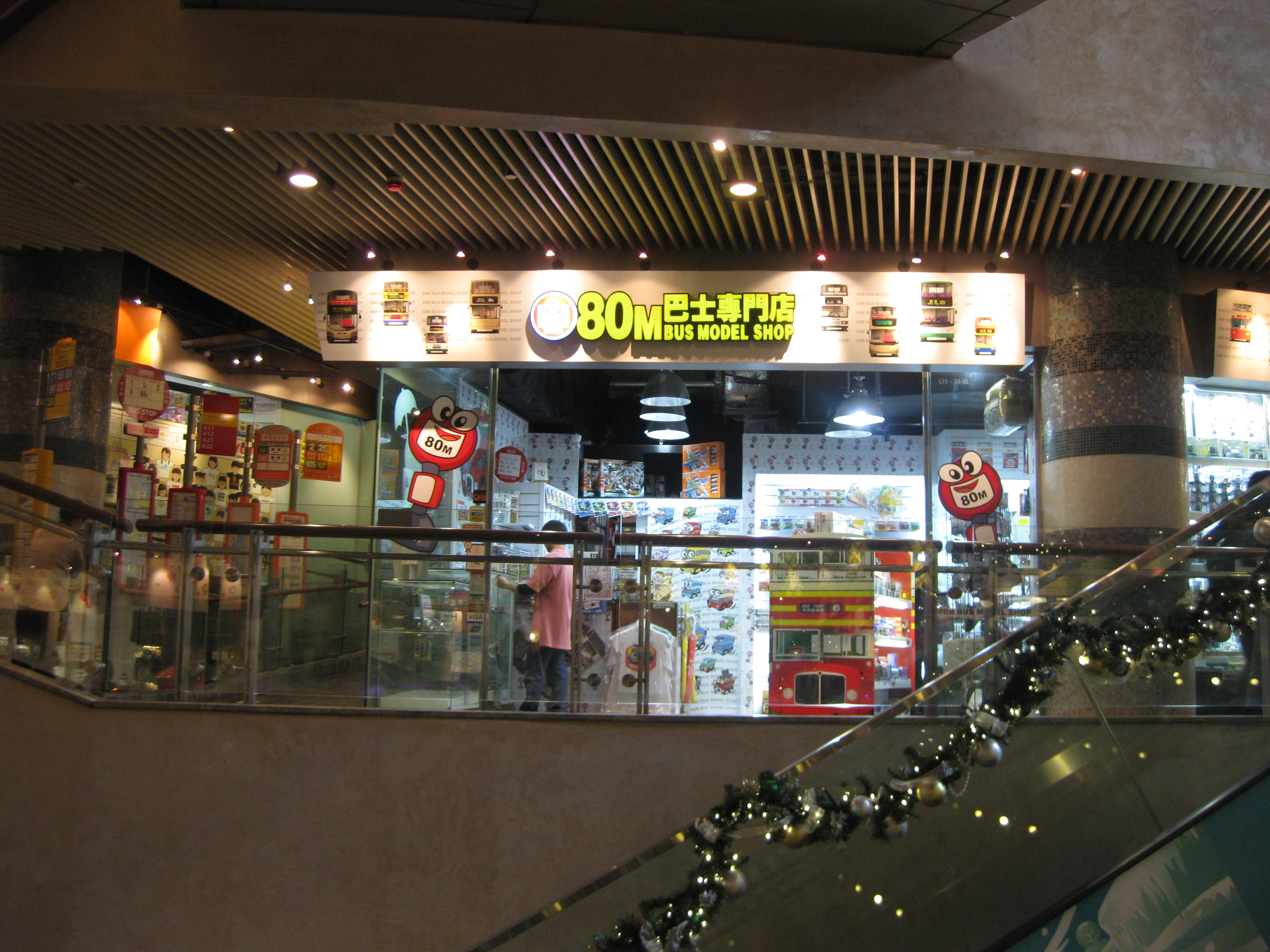 80M Bus Model Shop in Langham Place